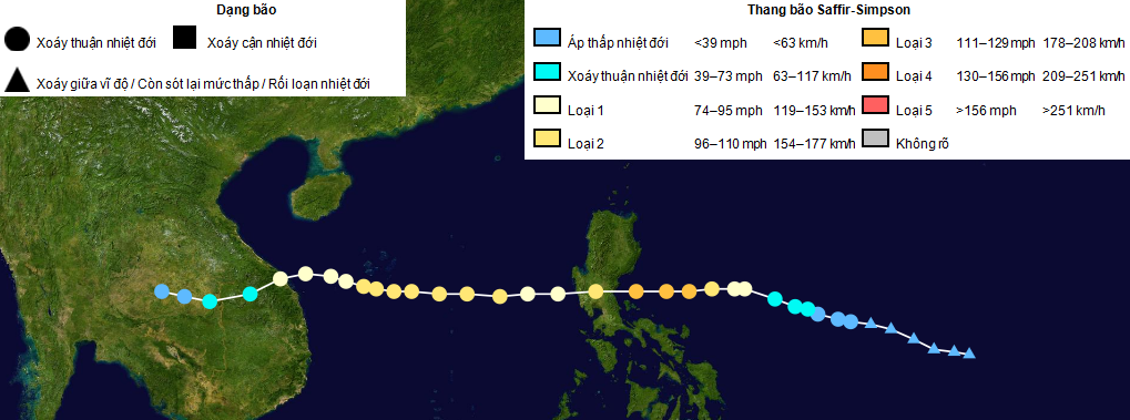 Typhoon Nari track (2013) in Vietnamese_more detail